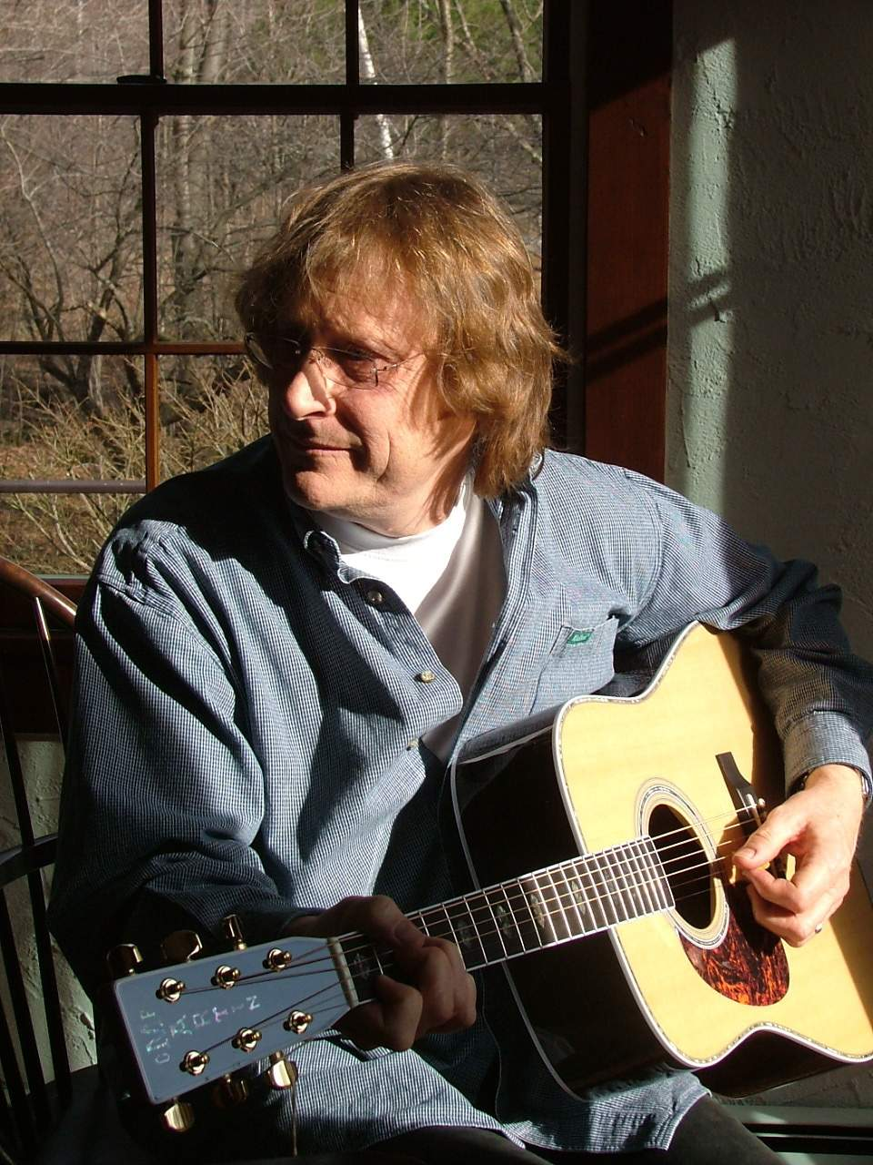 Portrait photo of Colin Larkin